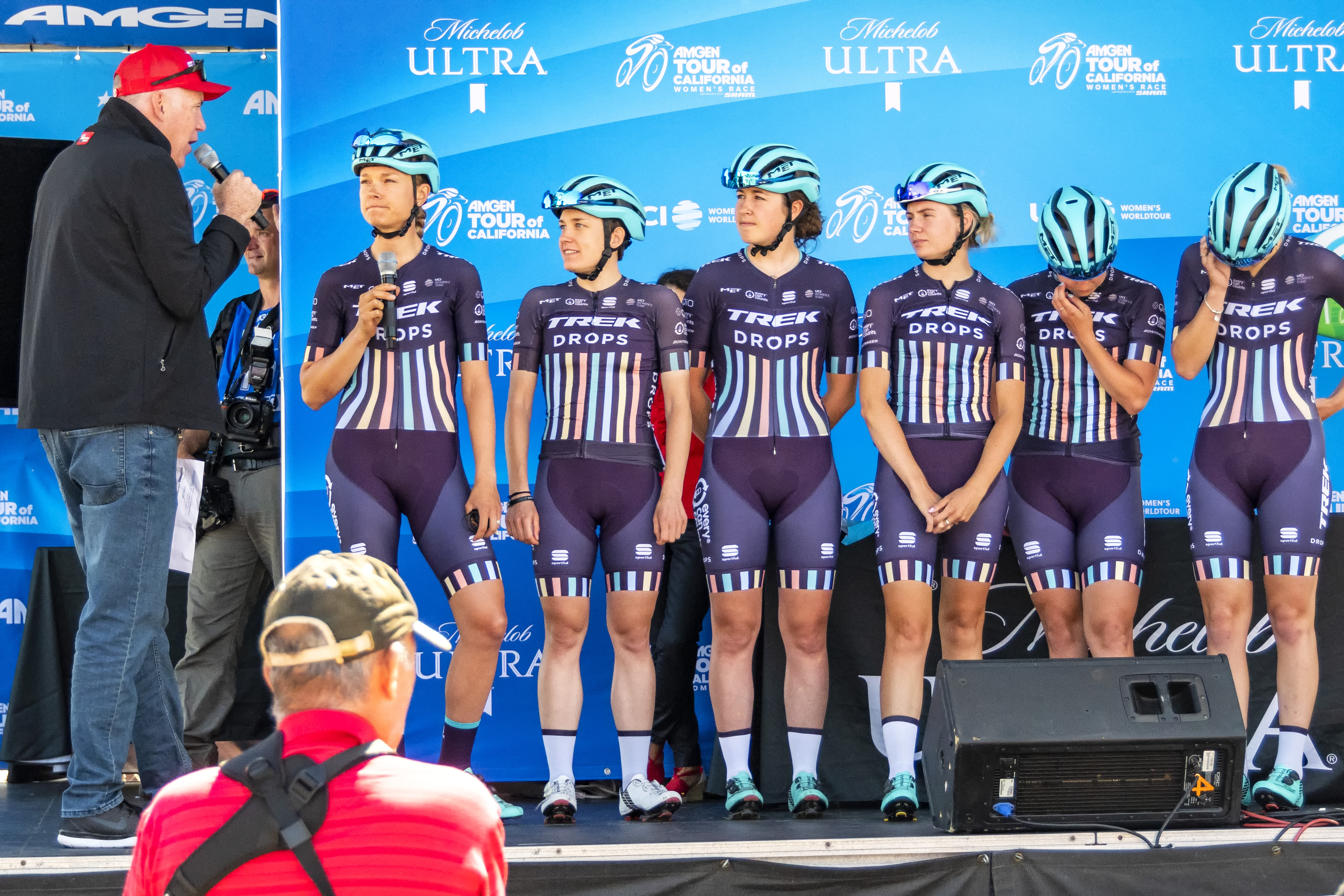 Amgen Women's Tour of California 2018